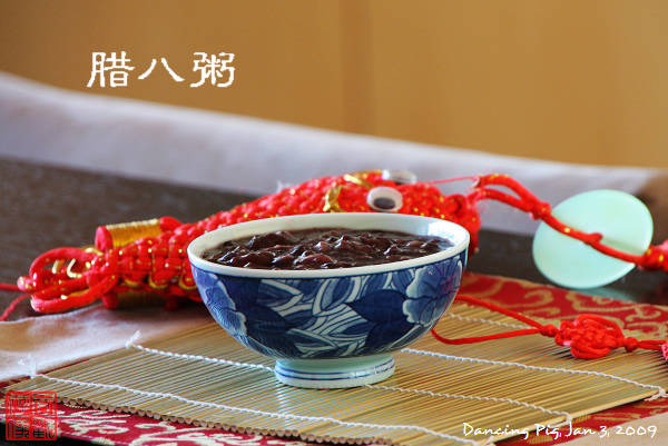 Laba porridge, eaten at Laba (lunar calendar 12/8) Festival in China.